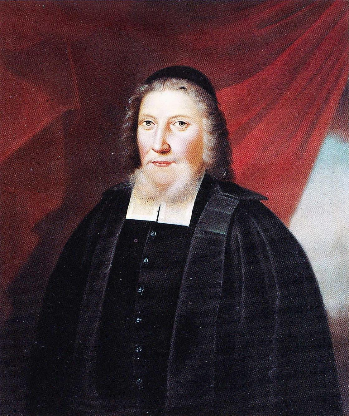 Johannes Gezelius the Younger (1647–1718), bishop of Åbo. The original portrait, made by Helena Arnell in the 17th century, is now kept in the Gripsholm castle in Sweden. This copy was made in 1839 by Johan Erik Lindh at the order of Helsinki University, which still owns it today.